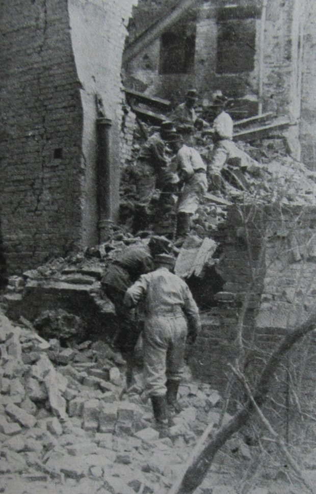 Warsaw Uprising, 8th September 1944. German demolition unit (Sprengkommando) is preparing to blow up the Royal Castle in Warsaw. This photo was taken by Alfred Mensebach – German architect and volksdeutsch from Leszno who documented the planed destruction of Warsaw. His album with the photos from Warsaw Uprising was discovered in Leszno after the war by Polish authorities. Original description of the photo: “Blowing up of former Royal Castle on the Vistula river”.